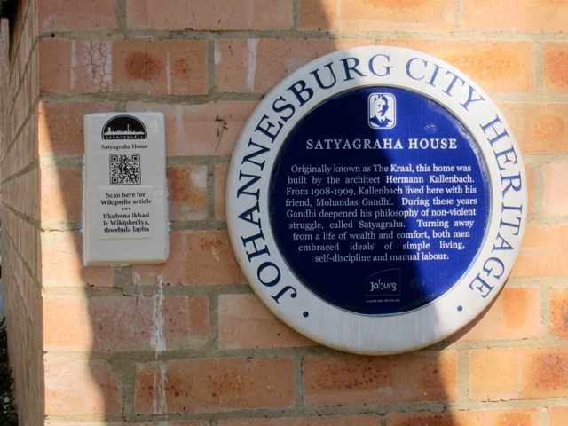 Ghandi house entrance with blue plaque and Joburgpedia Plaque